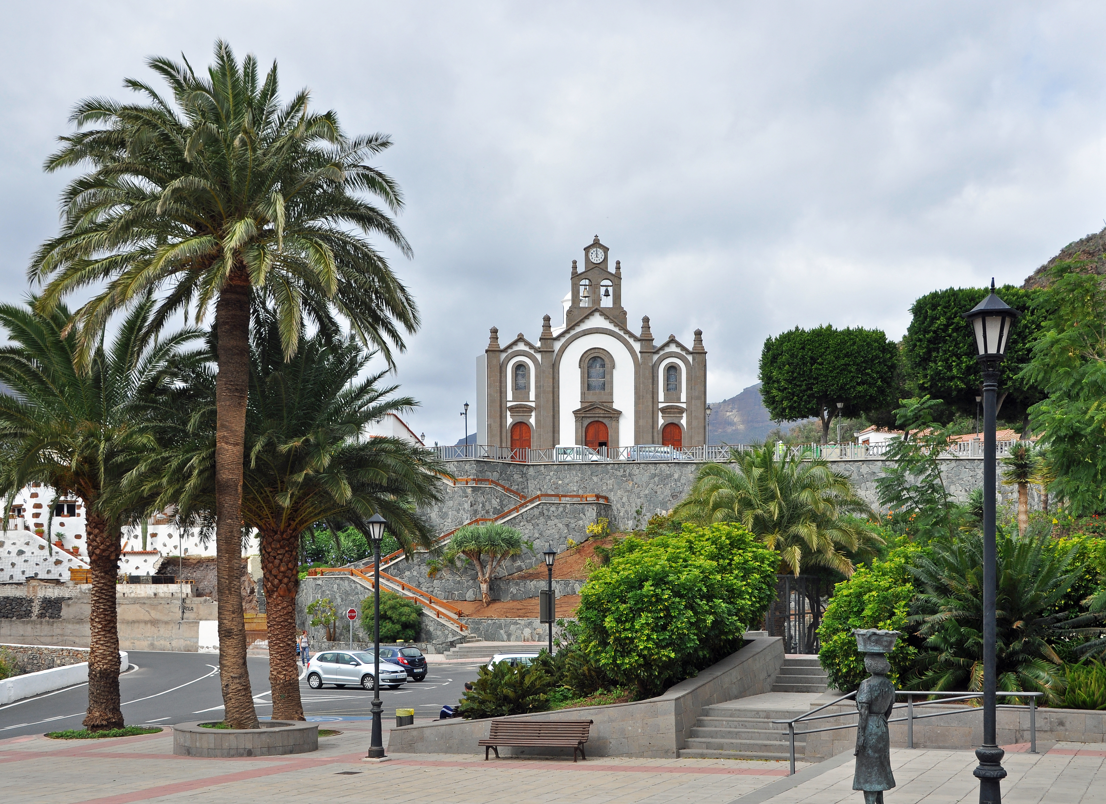 Santa Lucía de Tirajana (Gran Canaria): St Lucy's church